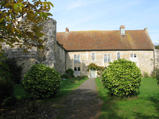 Part of Minster Abbey, formerly Minster Court, on the Isle of Thanet, Kent, England